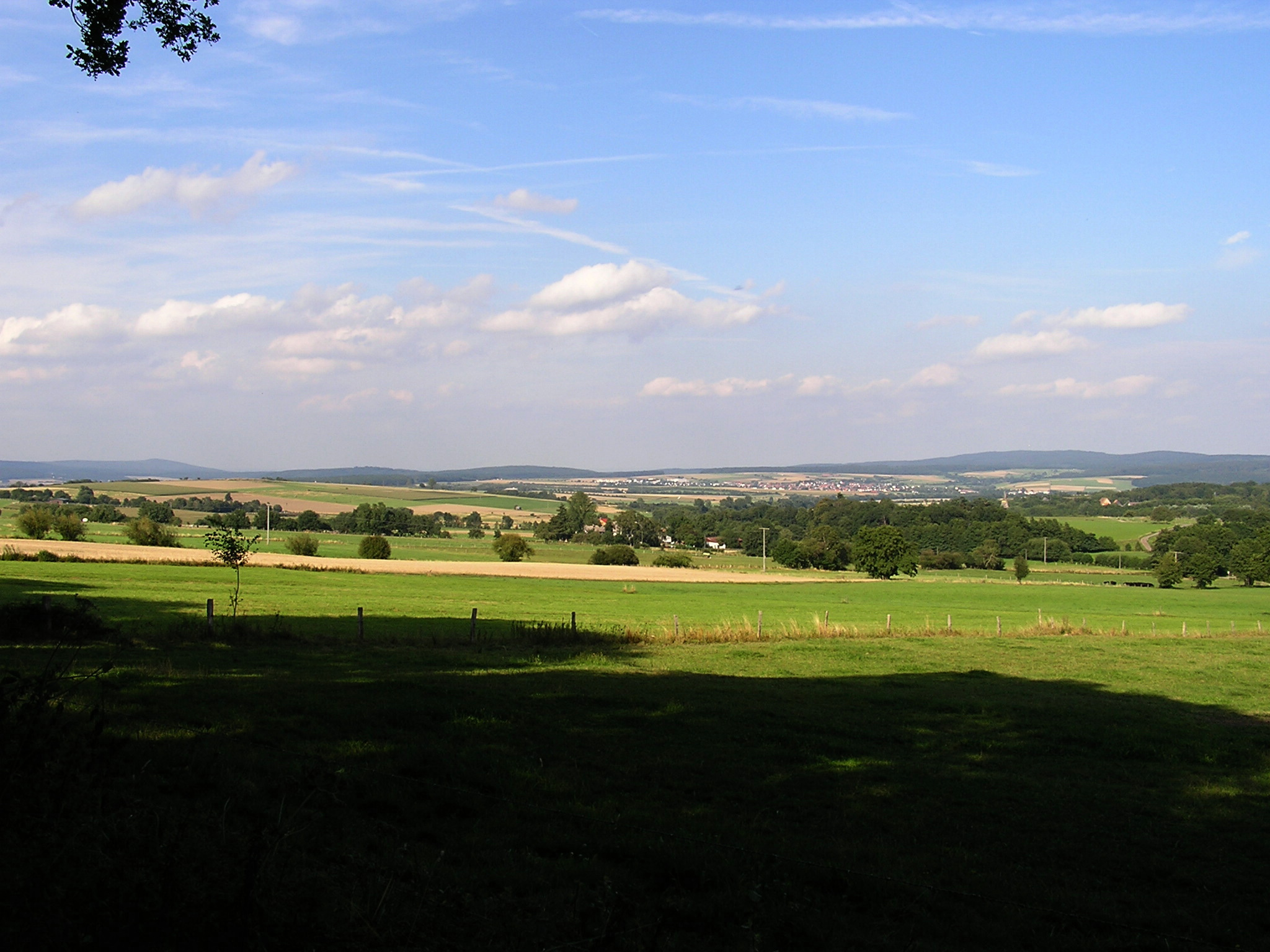 The Taunus, view from the Stahlnhainer Grund near Neu-Anspach. The mountain in the background is called Steinkopf, Wehrheim is located at its slope.